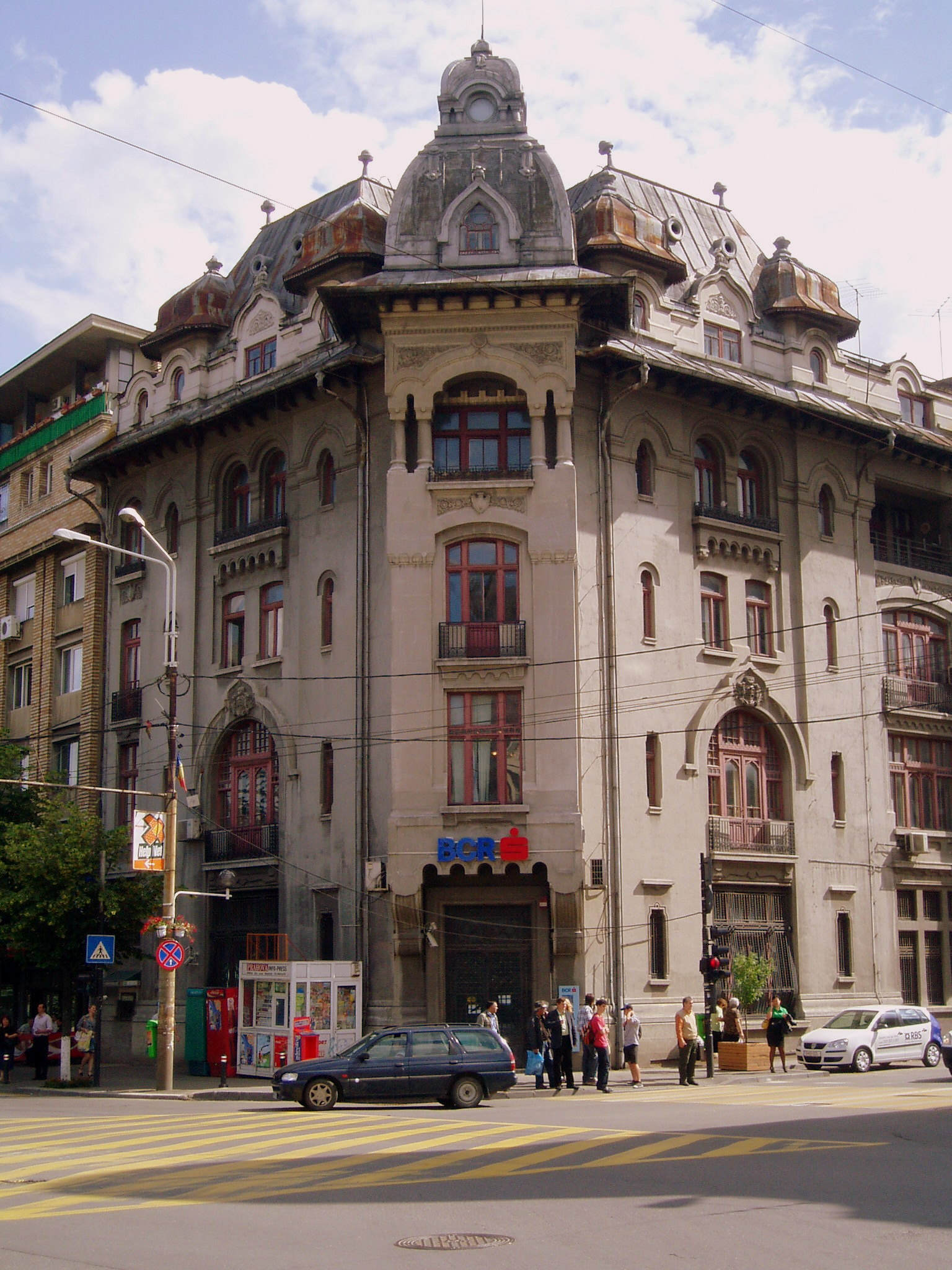 Creditul Prahovei done by Toma T. Socolescu in 1923. This building is classified historical monument and is located Strada Tache Ionescu, nr. 1, Ploieşti, Judeţul Prahova, Romania. We are the only heirs and descendants of Toma T. Socolescu (died in 1960 in Bucharest) and therefore owner of all his intellectual rights.